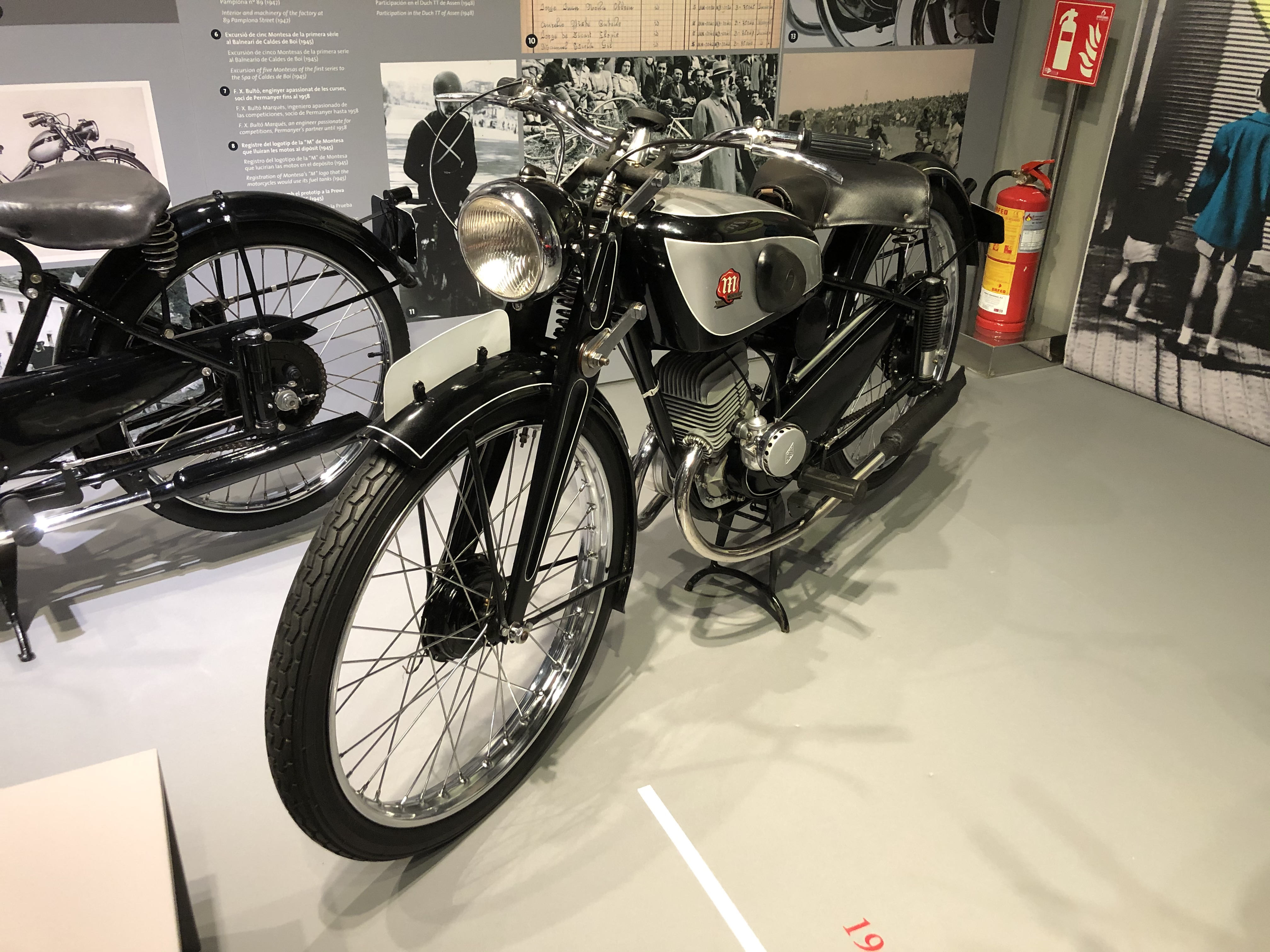 Montesa B46/49 (1946), Mod. MB, 124.9 cc